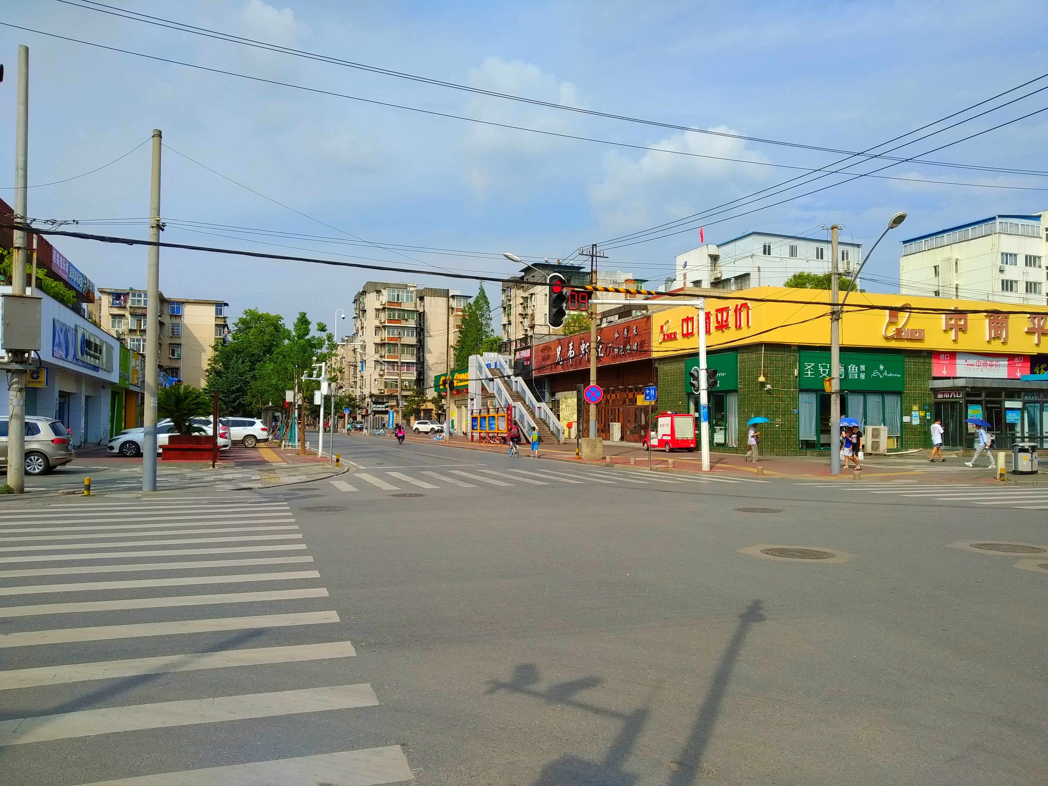 The crossing of Liaoling Street and Jianshe Road(2nd),Guanghuacun Subdistrict.